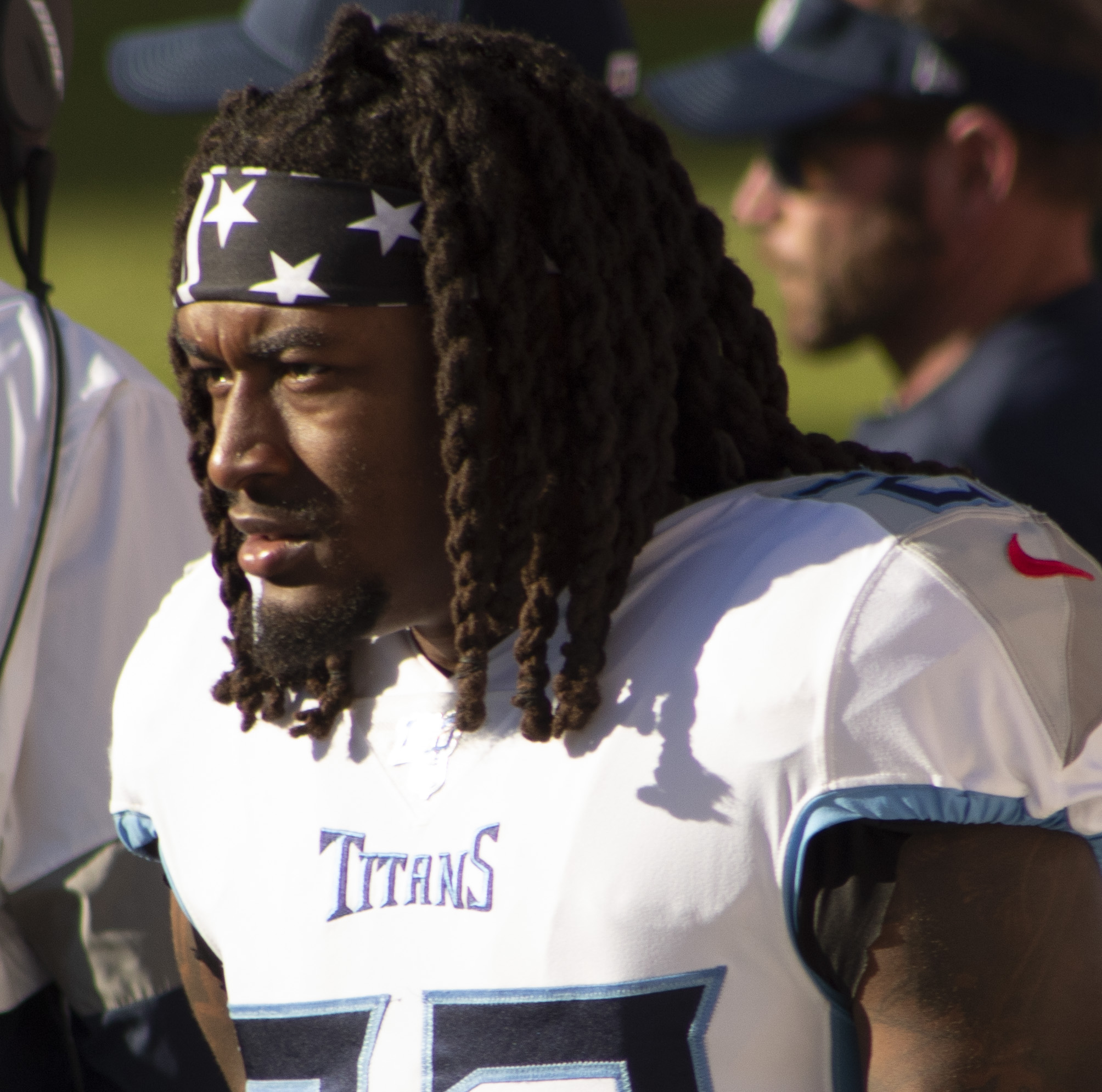 Tye Smith with the Tennessee Titans on October 13, 2019